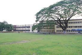 side view of central buiding, JGEC